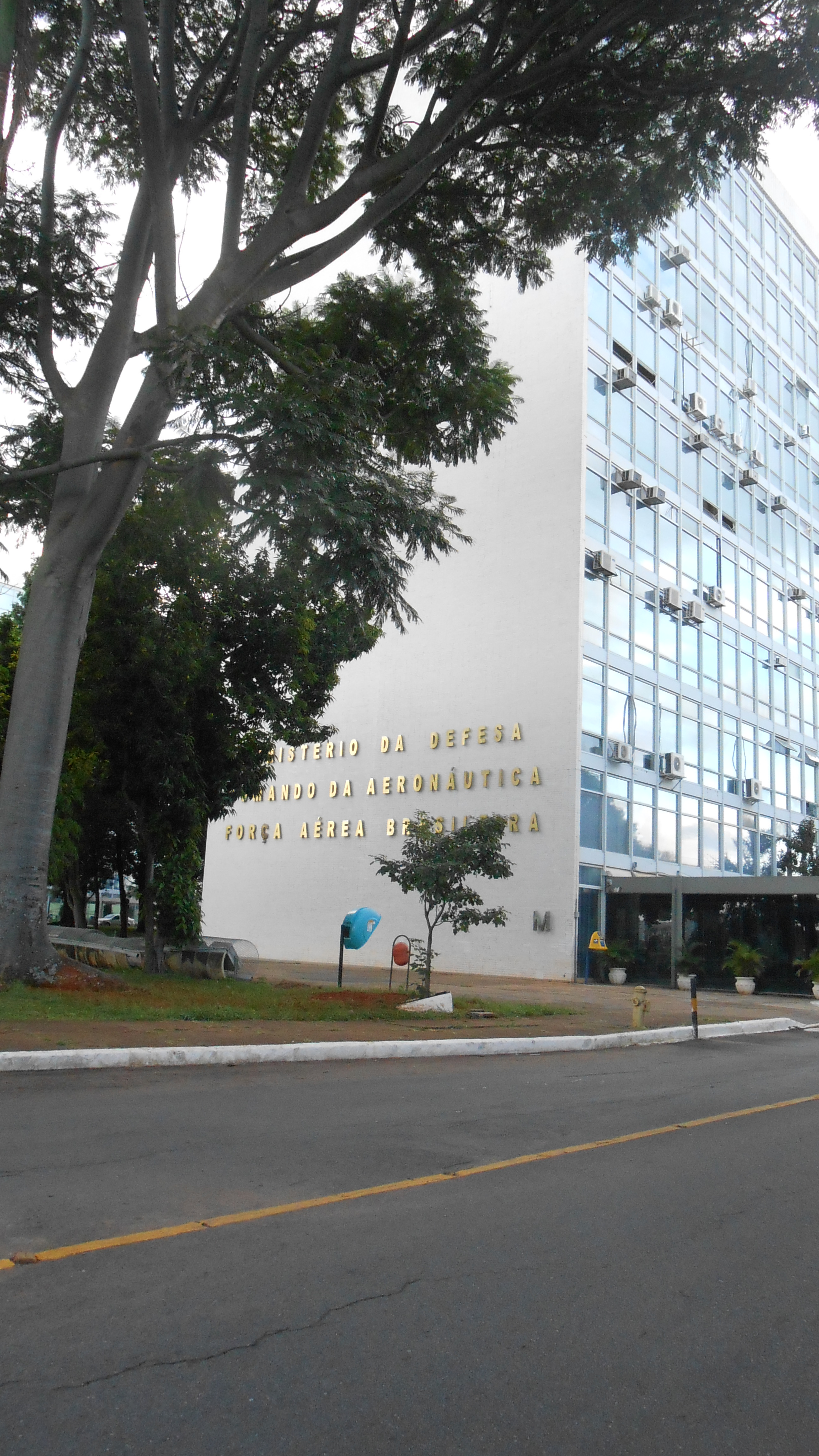 The brazilian Ministry of Defense at the avenue of the ministries ("Esplanada dos Ministérios") in the capital Brasília.